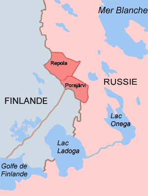 Map showing the parishes of Repola and Porajärvi